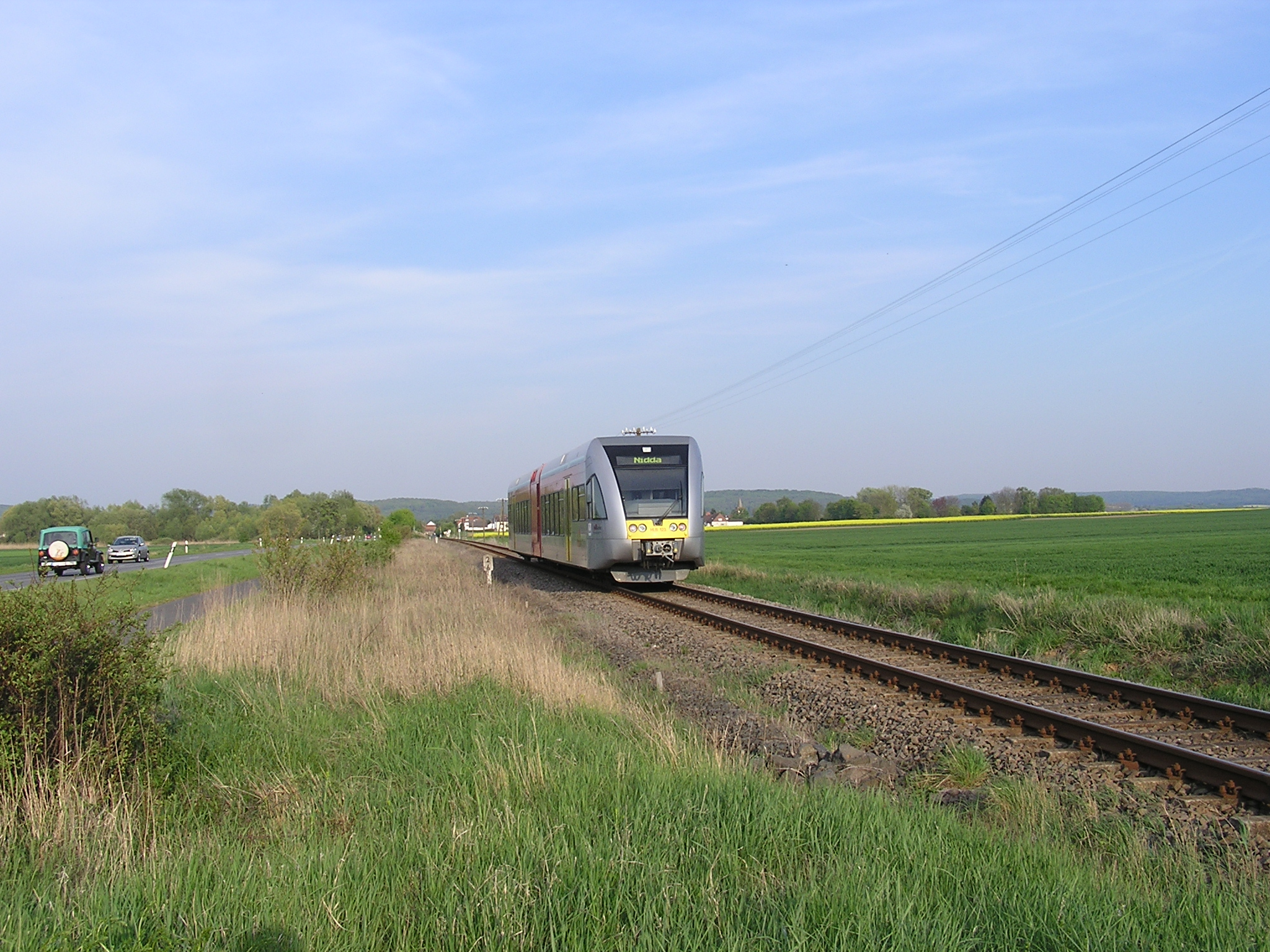 A GTW 2/6 of the HLB on the Horlofftalbahn between Beienheim and Reichelsheim on its way to Nidda